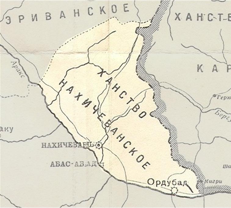 Azerbaijani khanate of Nakhchivan in the map of Caucasus in 1809-1817 years (Карта военных действий в Закавказском крае с 1809 по 1817 год)